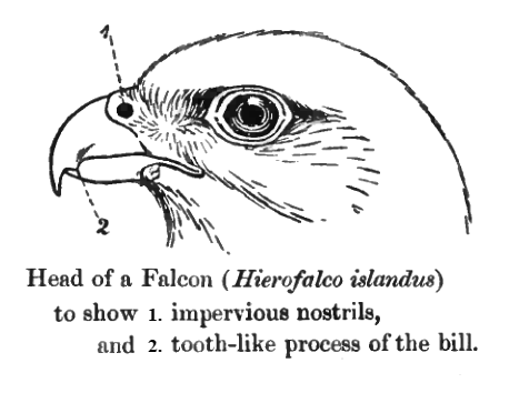 Falcon head and beak Falco rusticolus